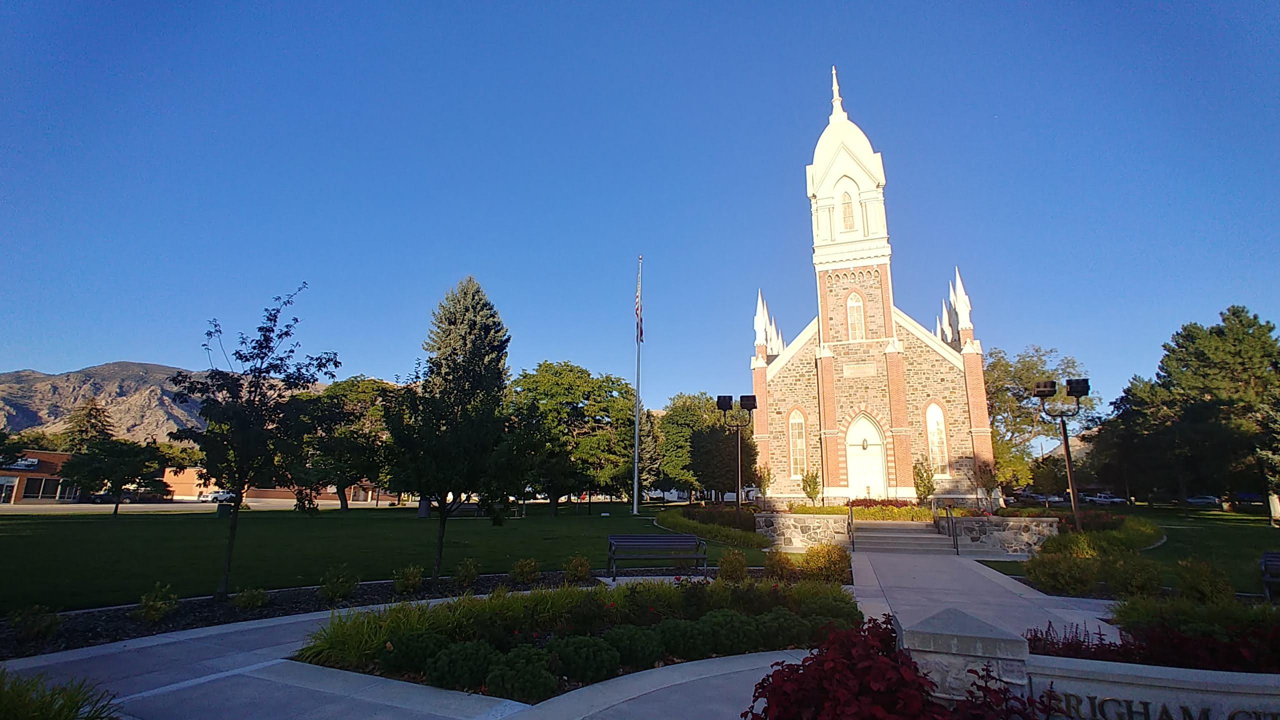 Brigham City Tabernacle